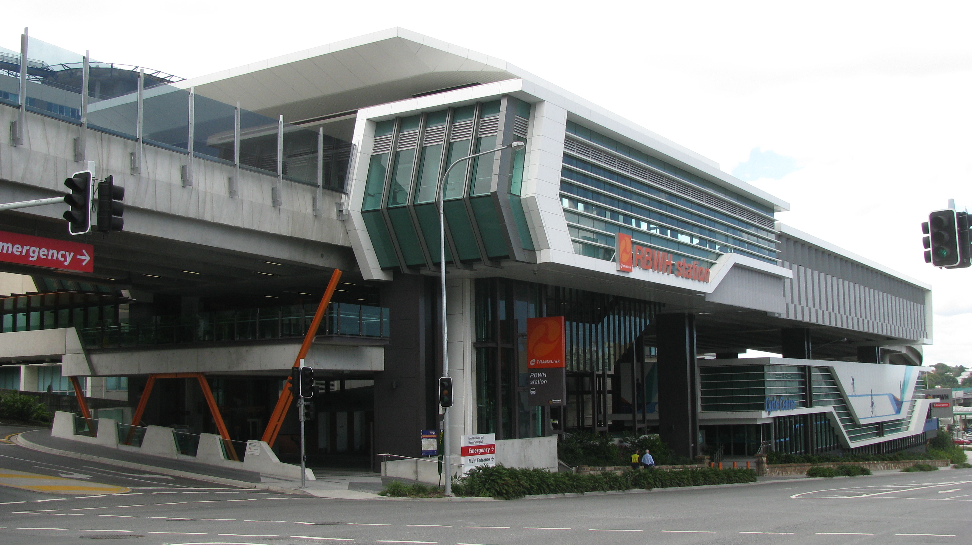 RBWH busway station viewed from Bowen Bridge Road.